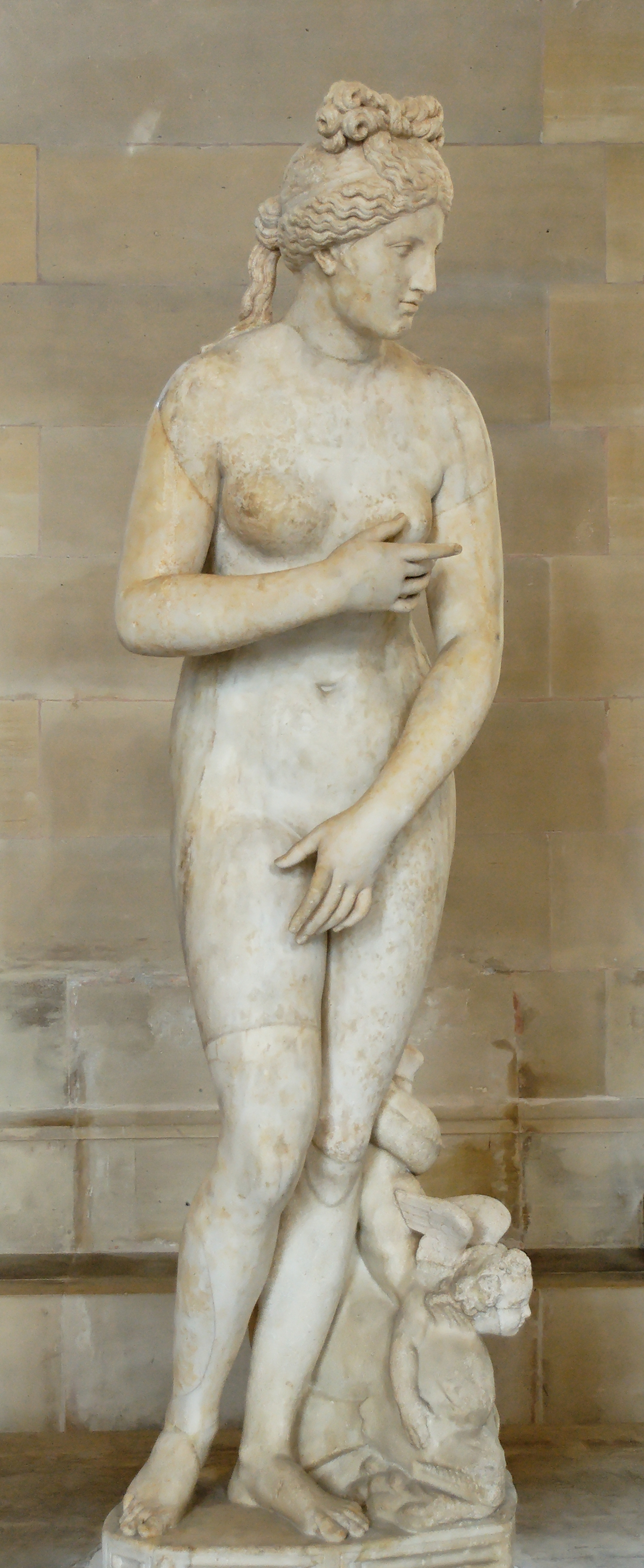 Capitoline Venus, after the Aphrodite of Cnidus. Roman copy of the Imperial era after a Late Classic type.